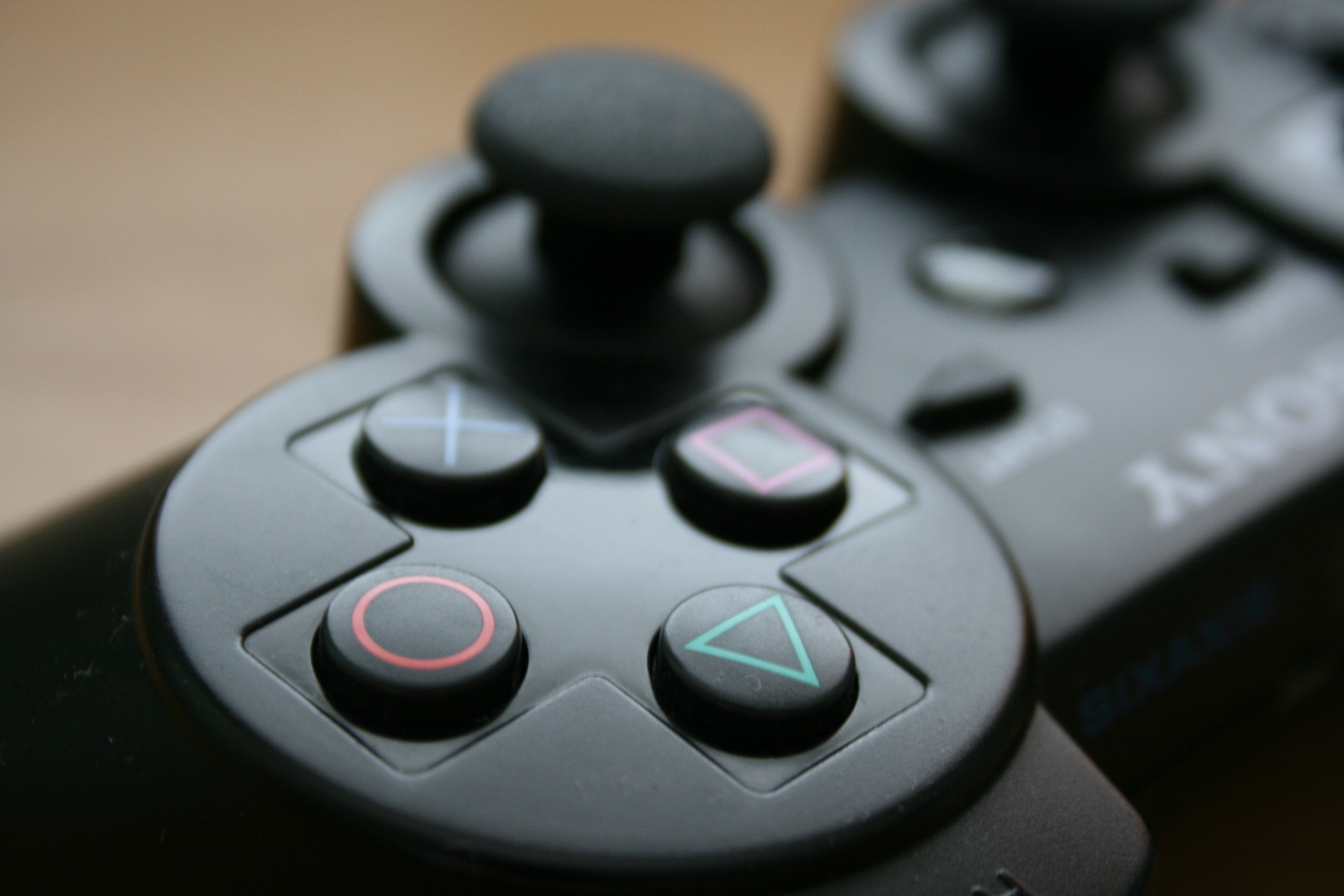 Detail of the bottons of the DualShock 3